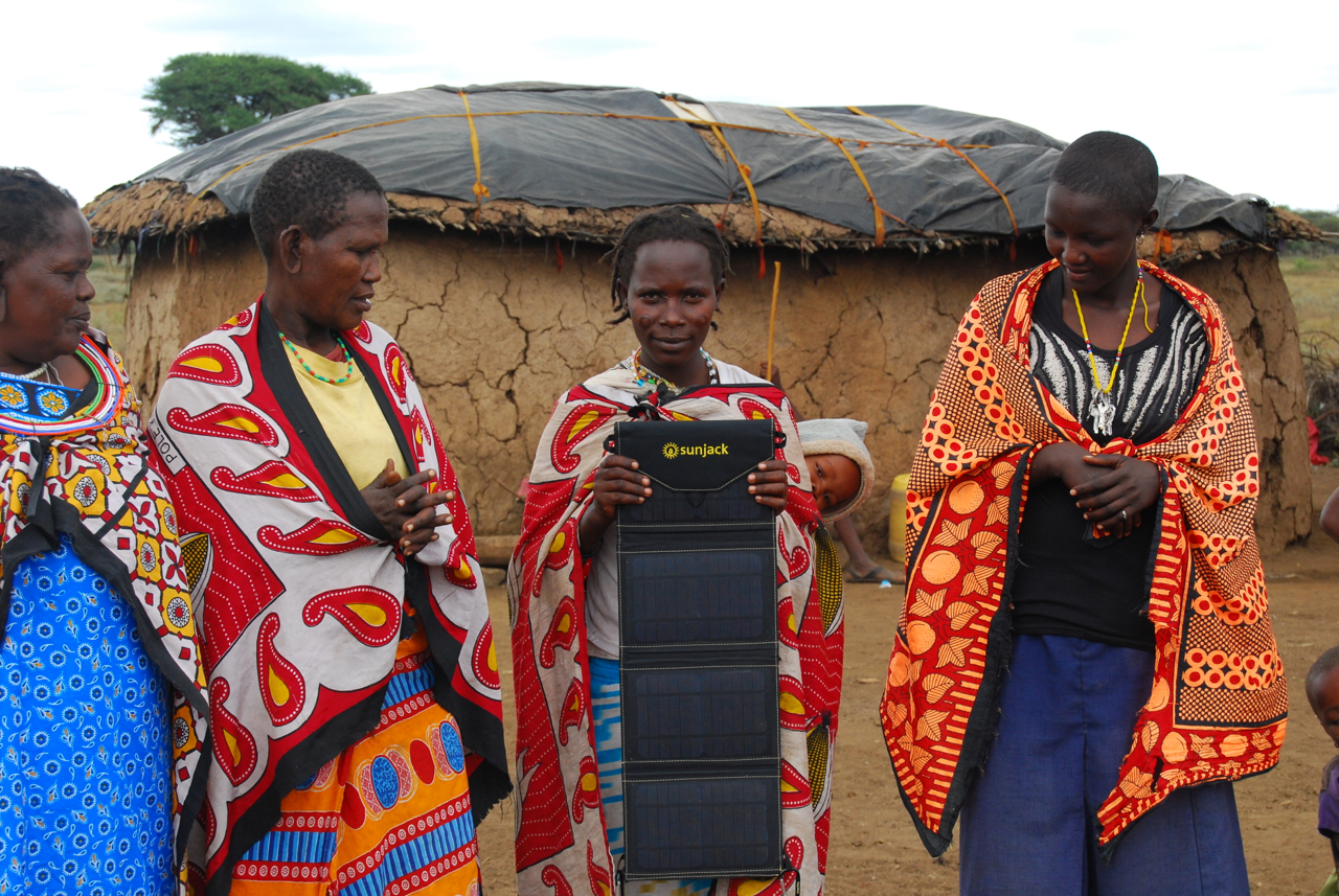 Rural African Villagers Holding Portable Solar Charger